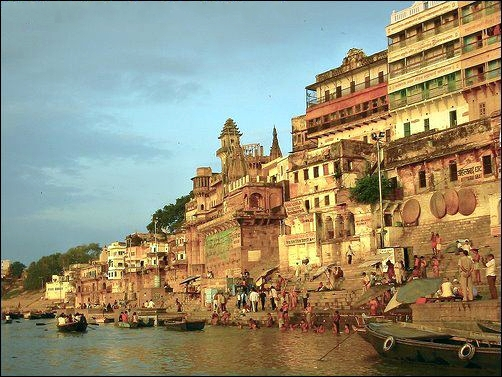 The Holy River Ganges